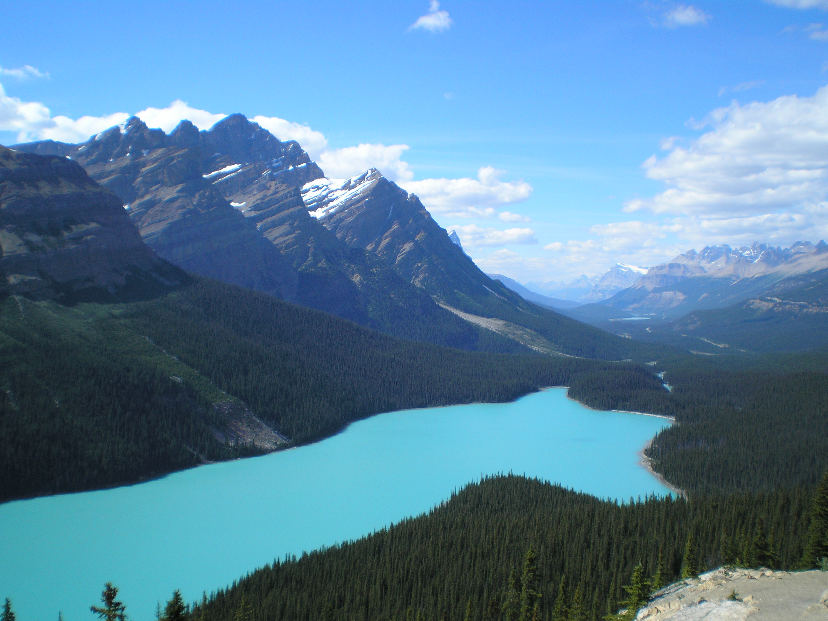 Peyto Lake in Banff National Park, Alberta, Canada.